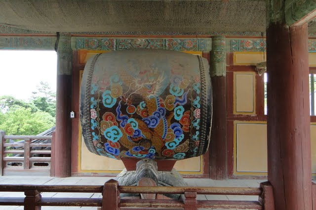 Drum, Bulguksa